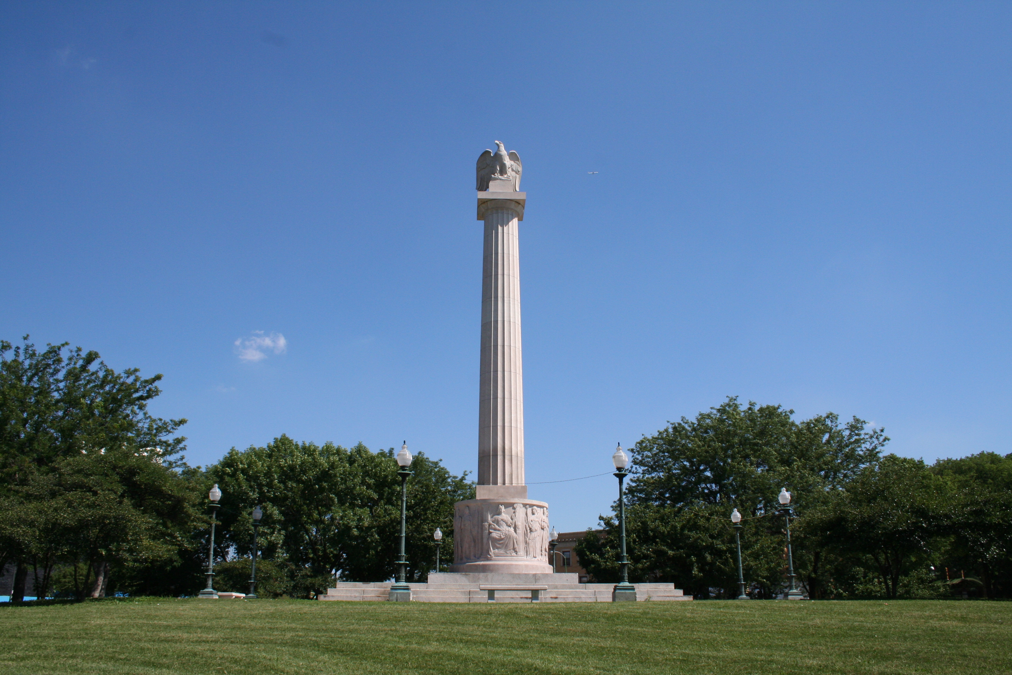 Photo taken by Sam Park on July 7, 2007.